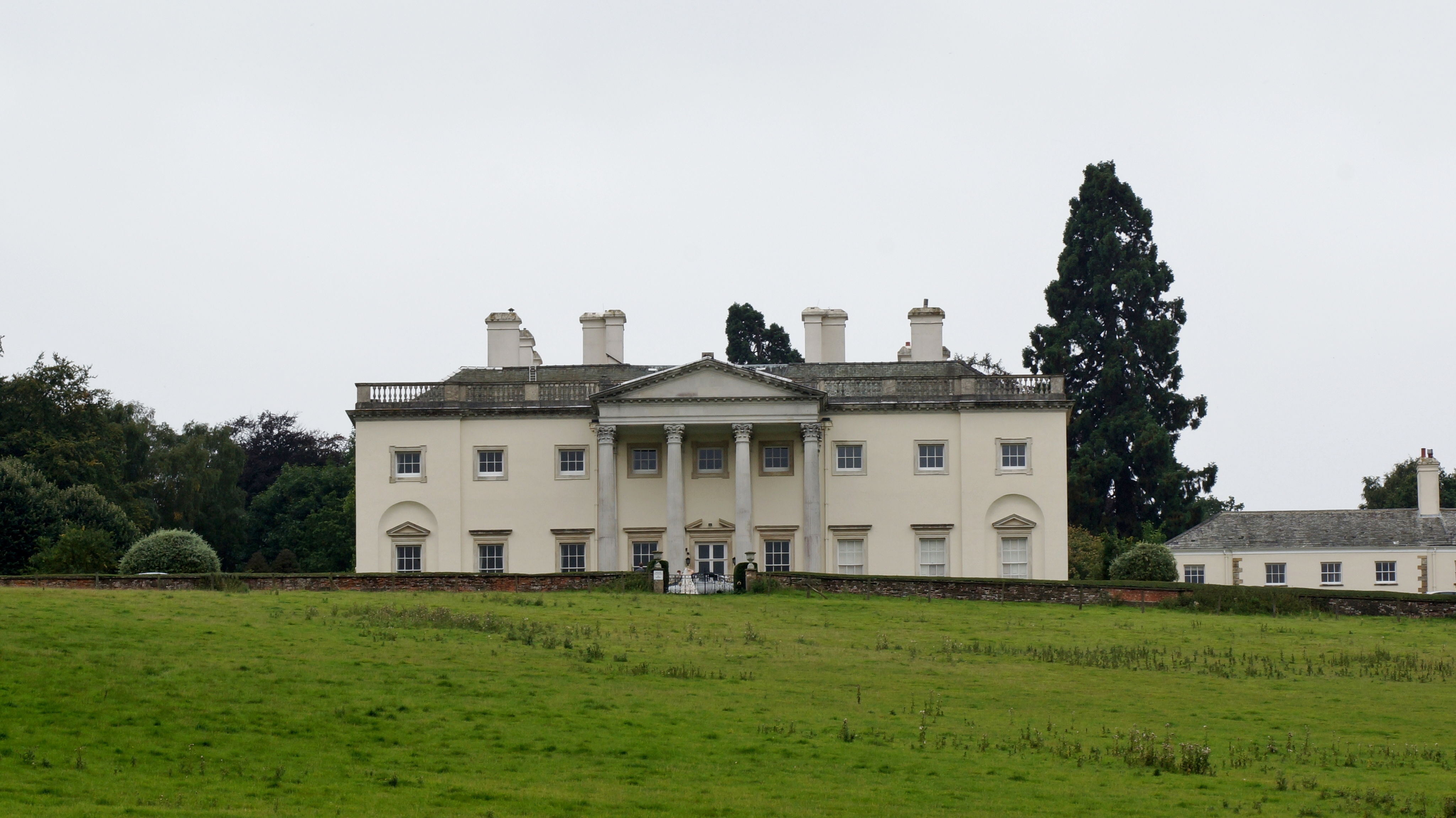 Wedding at Shardeloes Park.